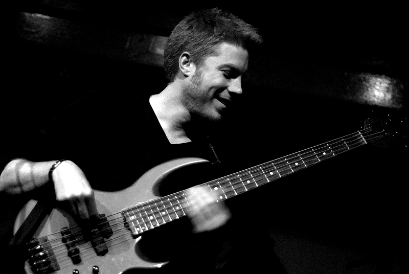 Kyle Eastwood at the Jazz Cafe, London